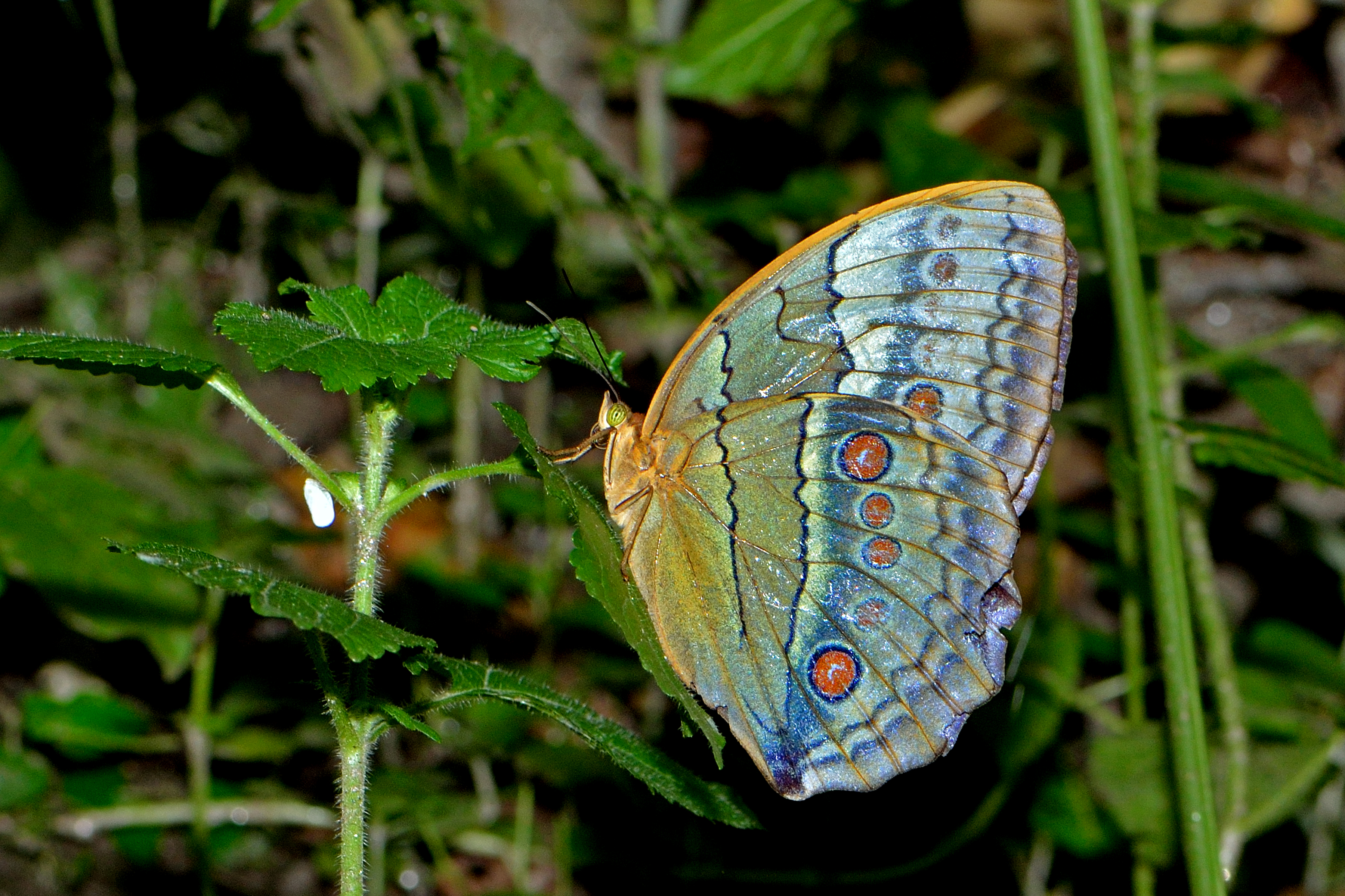 Close wing basking position of Stichophthalma camadeva Westwood, 1848 – Northern Junglequeen .Specimen belongs to sub-specis Stichophthalma camadeva camadeva – Sikkim Northern Junglequeen . অসমীয়া: পাখি বন্ধ অৱস্থাত ৰ'দ পুৱাই কৰা Stichophthalma camadeva Westwood, 1848 – Northern Junglequeen পখিলা । এই নমুনাটো Stichophthalma camadeva camadeva – Sikkim Northern Junglequeen উপ-প্ৰজাতিৰ অন্তৰ্গত ।